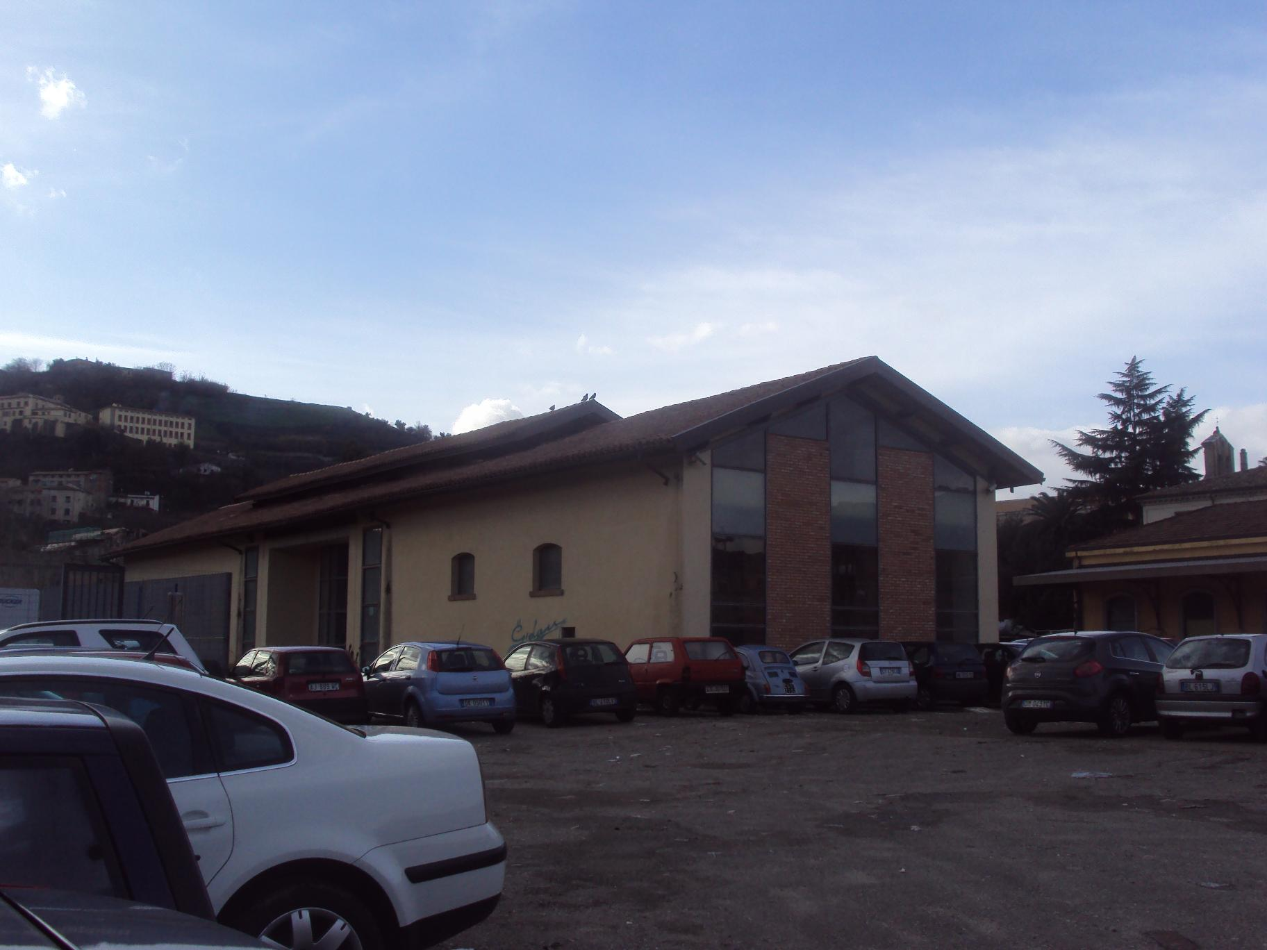 Engines shed at the former Cosenza railway station